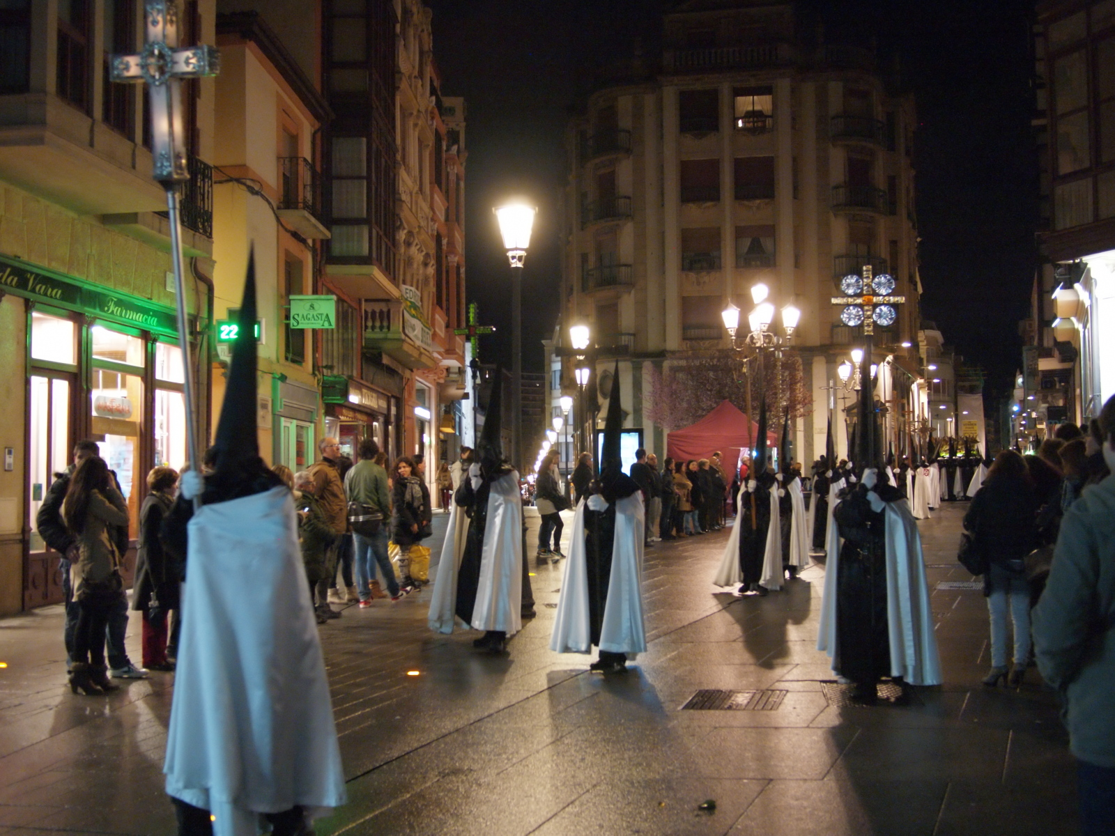 Procession of the religious brotherhood Hermandad de Jesús en su Tercera Caída, Zamora (Spain), Holy Week 2013